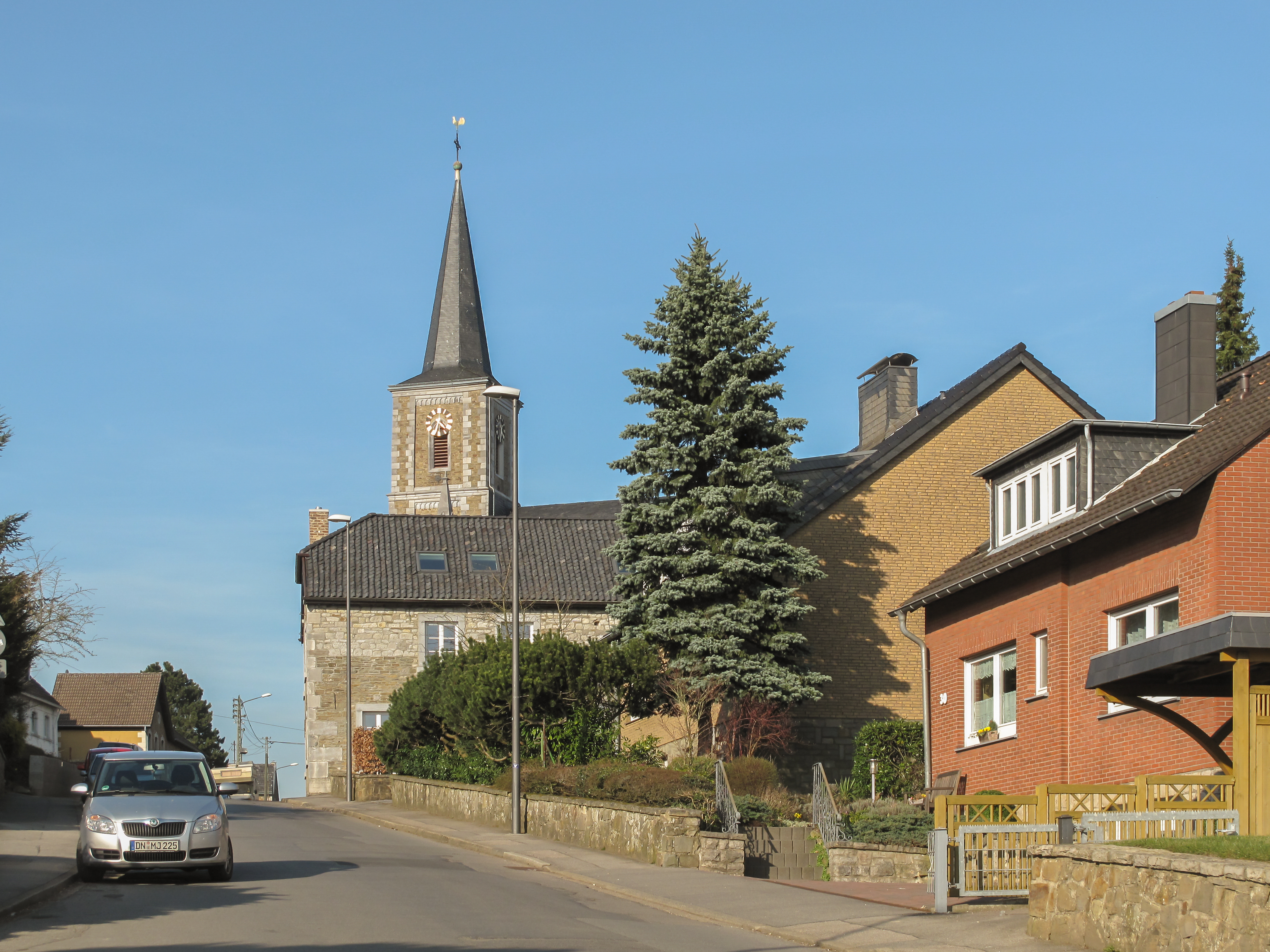 Walheim, church (Sankt Anna Kirche) in the street